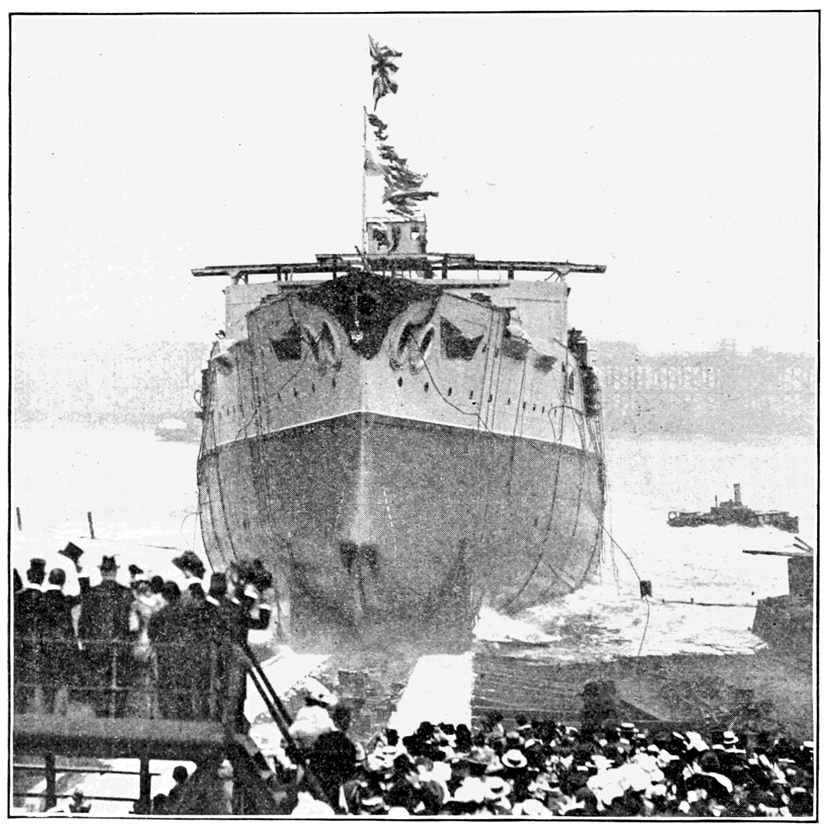 Battleship Hatsuse launched on June 27 1899